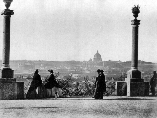 Pompeo Molins (1827-1893) - Rome - Prospect from Pincio Hill. From: Its description reads: "Pompeo Molins: Blick auf Rom vom Pincio (ca. 1862). In: Gesine Asmus: Rom in frühen Photographien 1846 - 1878. München: Schirmer/Mosel 1988. S. 59.